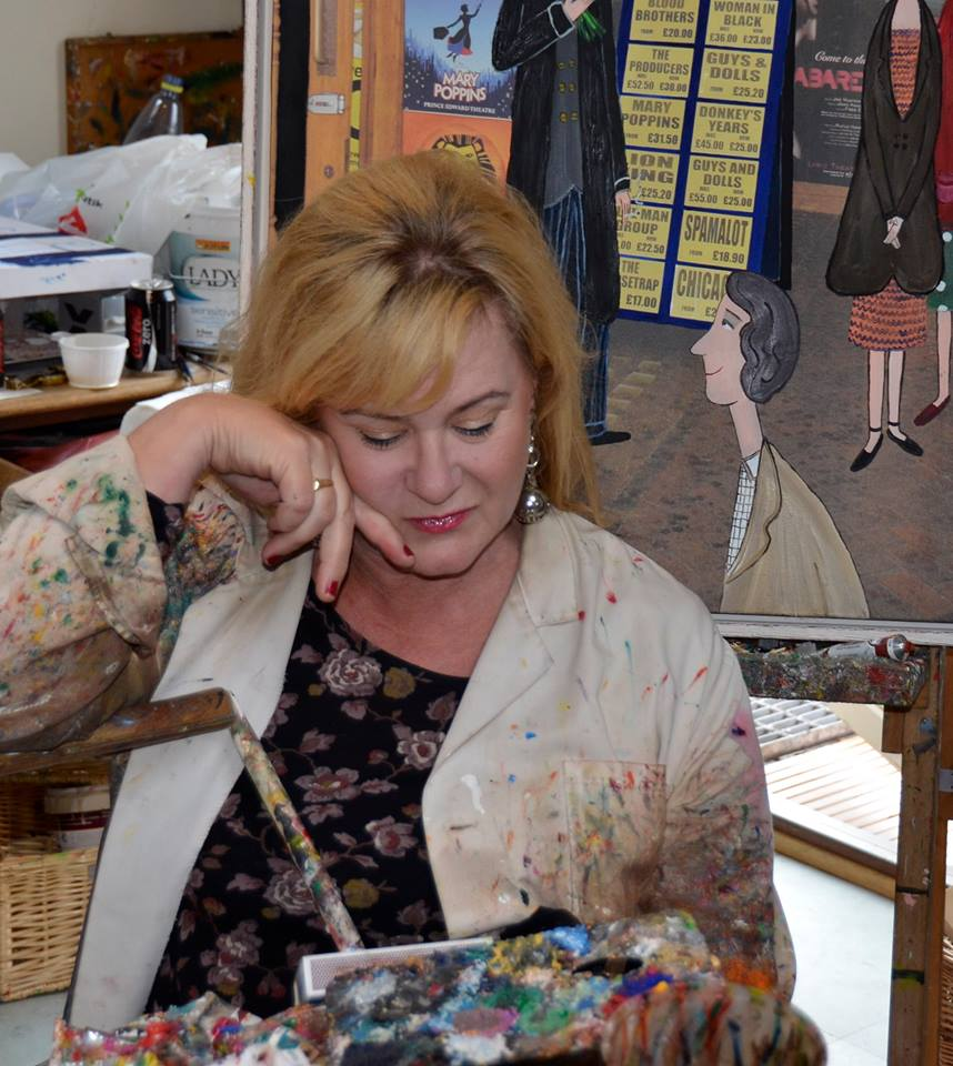 A picture i took of my friend